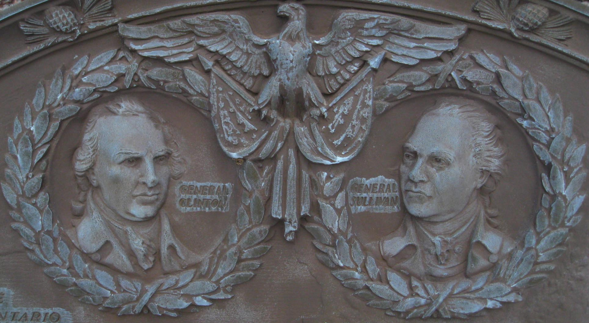 Specific detail of a plaque erected by the state of New York in 1929 commemorating The Sullivan Expedition. Detail shows General John Sullivan and General James Clinton. Picture was taken with a Canon Power Shot SD850 camera and modified using various programs on a laptop computer.